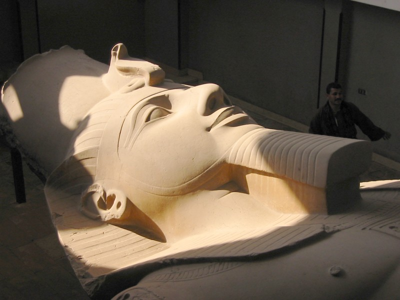 Colossal statue of Ramses II in Memphis